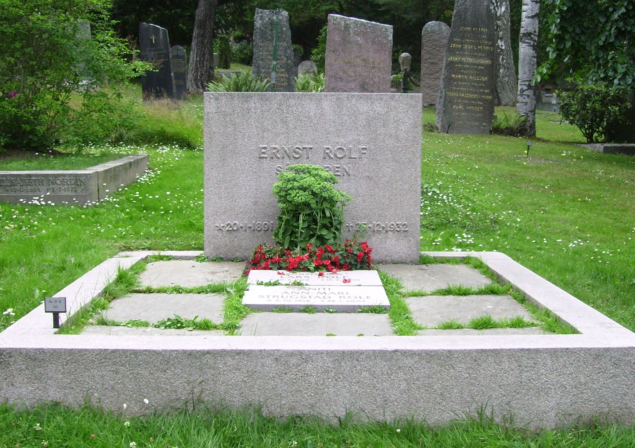 Picture of Ernst Rolf's grave at Norra begravningsplatsen in Solna.